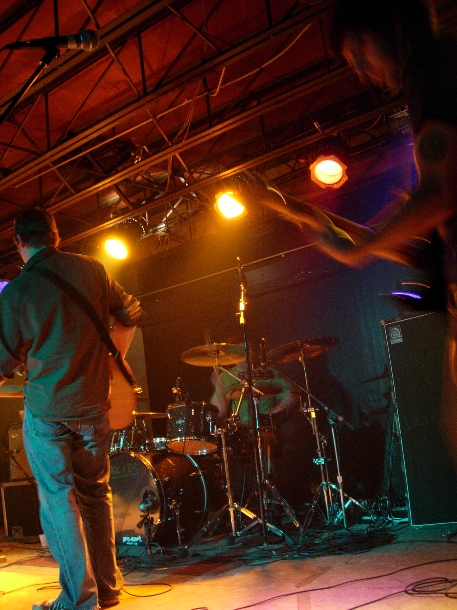 The Black Sheep (Colorado Springs, CO)